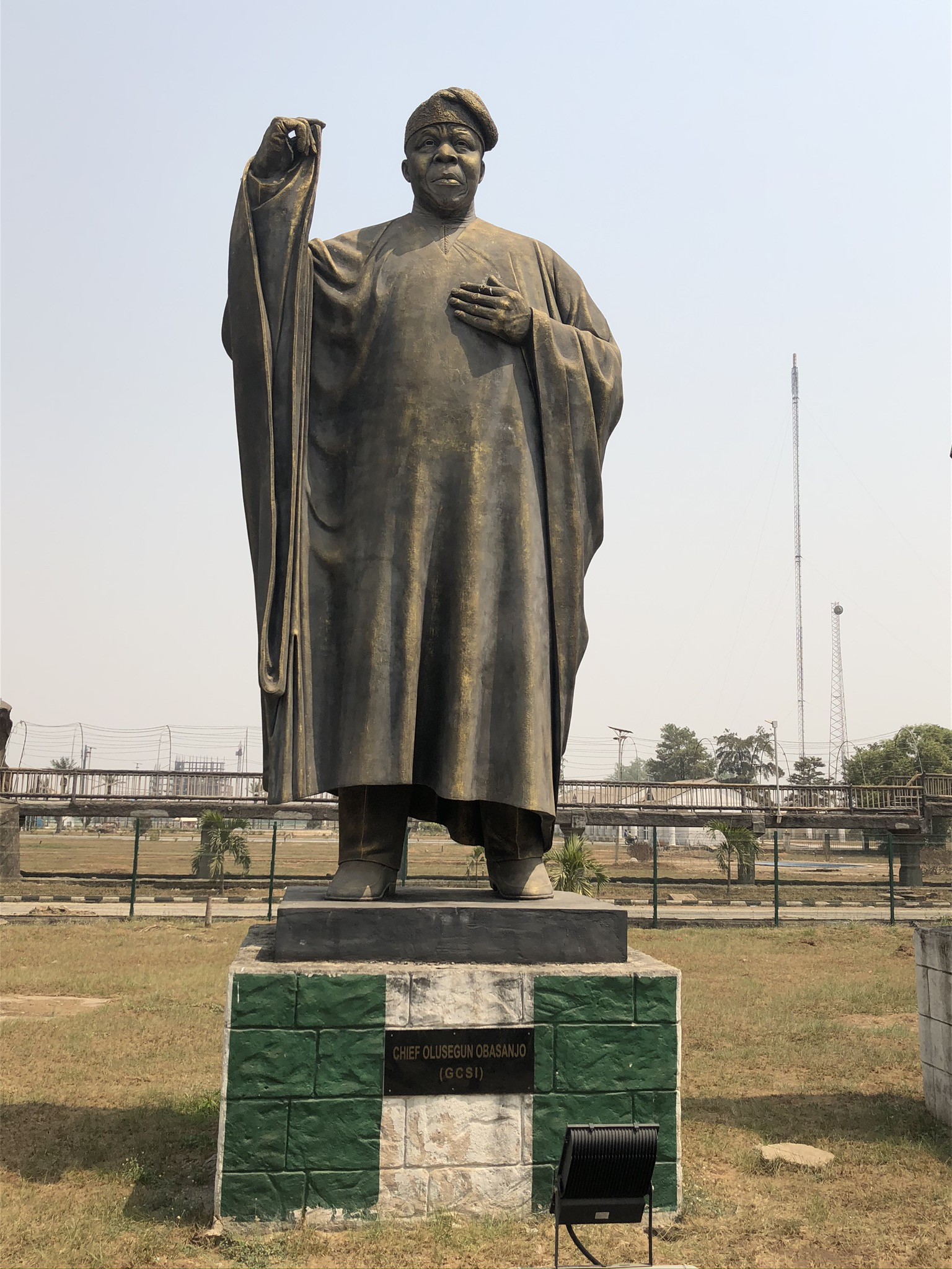 Statue Tourist attraction in Owerri Imo State